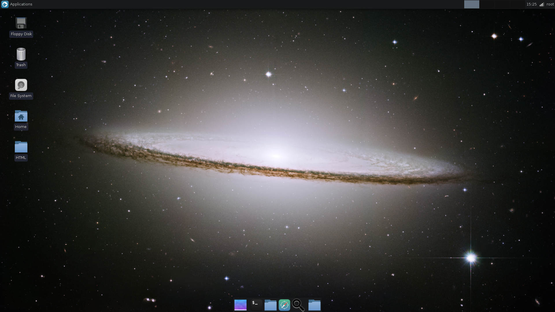 The screenshot of Kali Linux 2016-1 Desktop OS